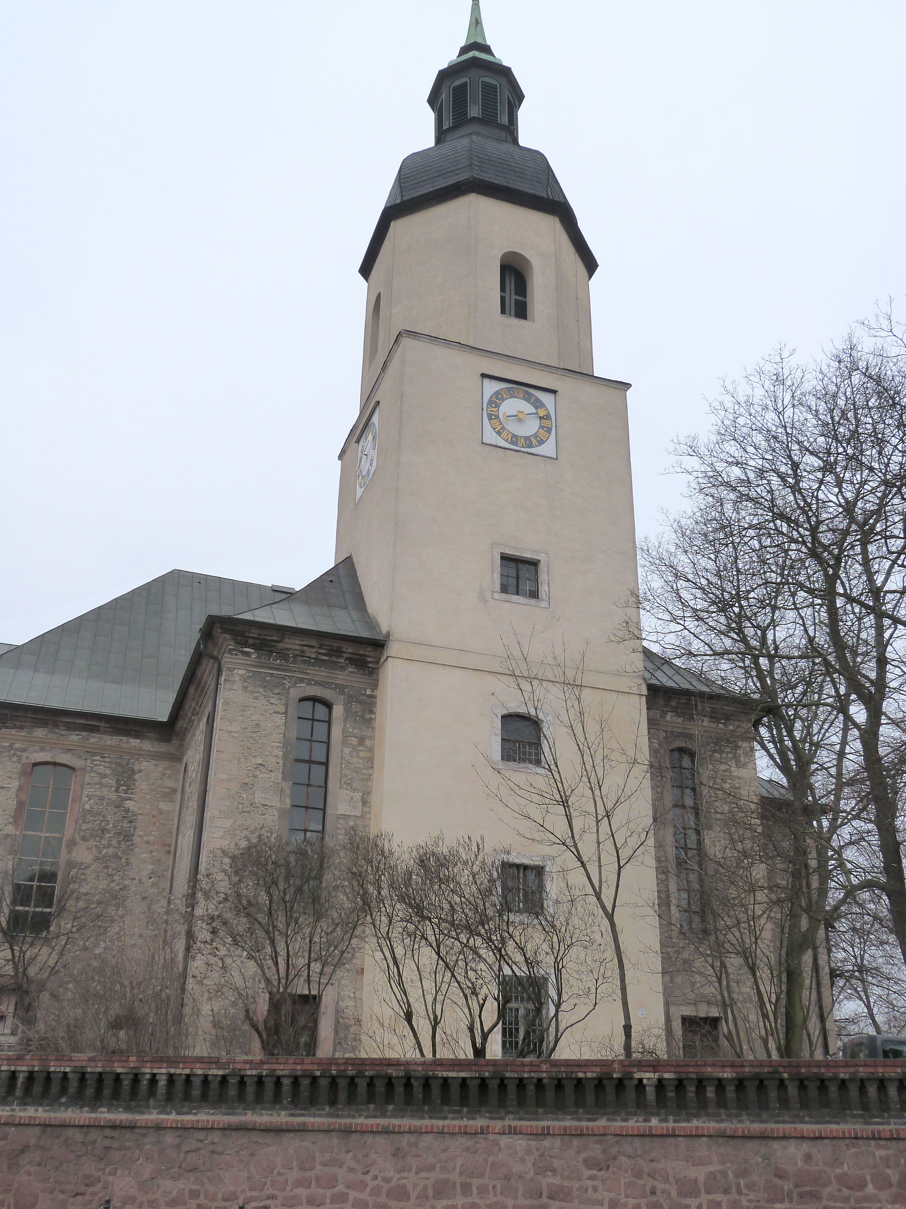 Saint George church in Halle (Saale)